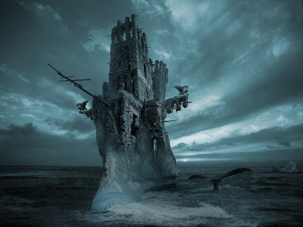 Flying Dutchman Phantom